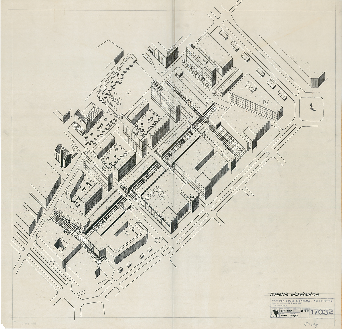 Van den Broek en Bakema. Stedelijk plan winkelcentrum De Lijnbaan, Rotterdam, 1948-1953. Collectie Het Nieuwe Instituut, BROX 907t4 Van den Broek and Bakema. Urban plan for De Lijnbaan shopping centre, Rotterdam, 1948-1953. The New Institute Collection, BROX 907t4 200 tekeningen, maquettes en foto's uit de collectie van Het Nieuwe Instituut zijn dit najaar te zien in De Hermitage in St. Petersburg. Samen met een aantal bruiklenen van hedendaagse architectenbureaus vormen ze de tentoonstelling ‘Architecture the Dutch Way 1945-2000’, over de vormgeving van Nederland na de Tweede Wereldoorlog. Op Flickr Commons een uitgebreide selectie uit de stukken die in september op transport gaan naar Rusland. 200 drawings, models and photographs from the collection of The New Institute will be on show this autumn at the Hermitage in St. Petersburg. Together with several items on loan from contemporary architectural firms, they will form the exhibition Architecture the Dutch Way 1945-2000 which is about the design of the Netherlands after the Second World War. On Flickr Commons we present a selection of pieces that will be leaving for Russia in early September.